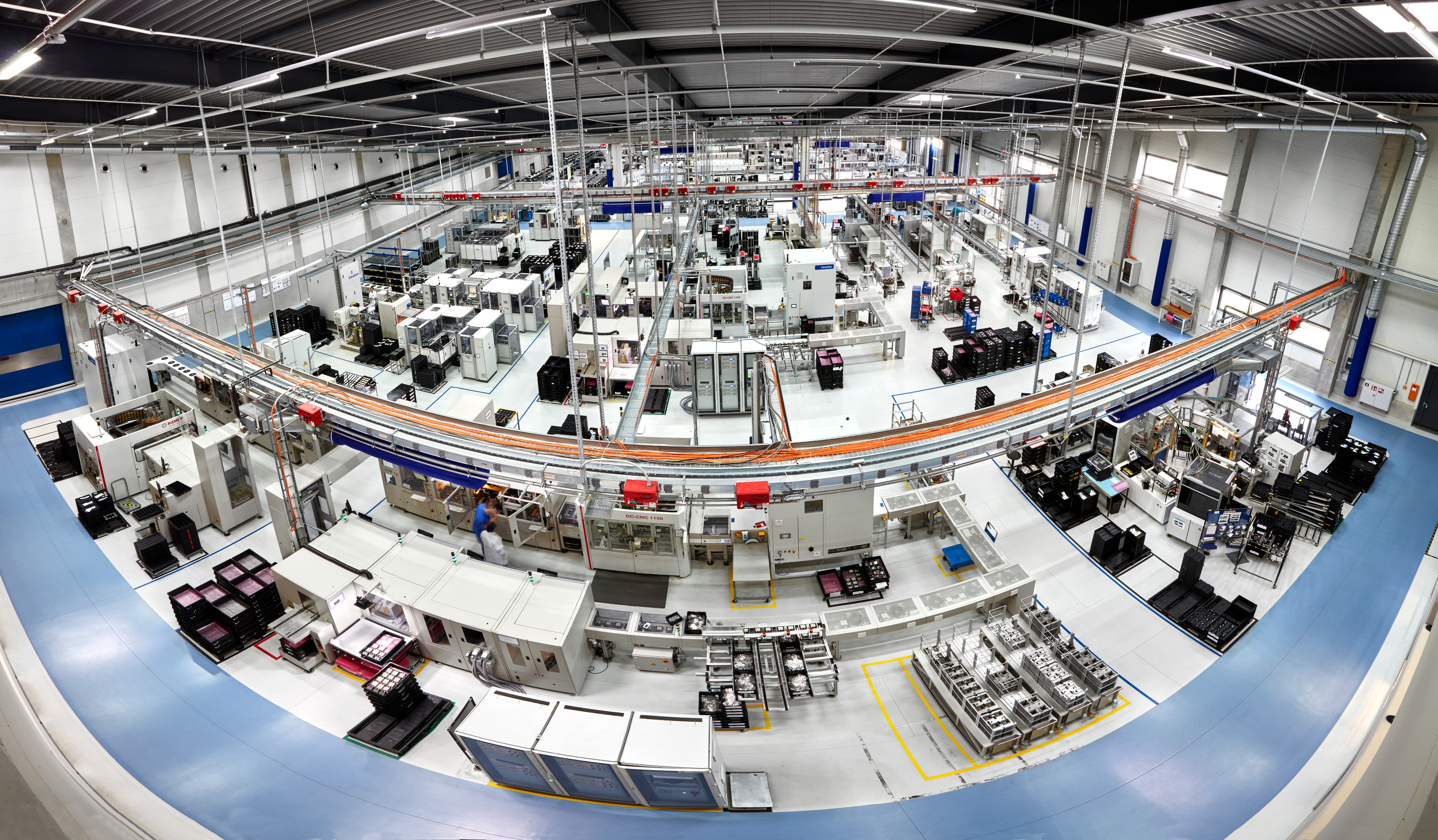 Eberspaecher Controls Landau production automotive electronics